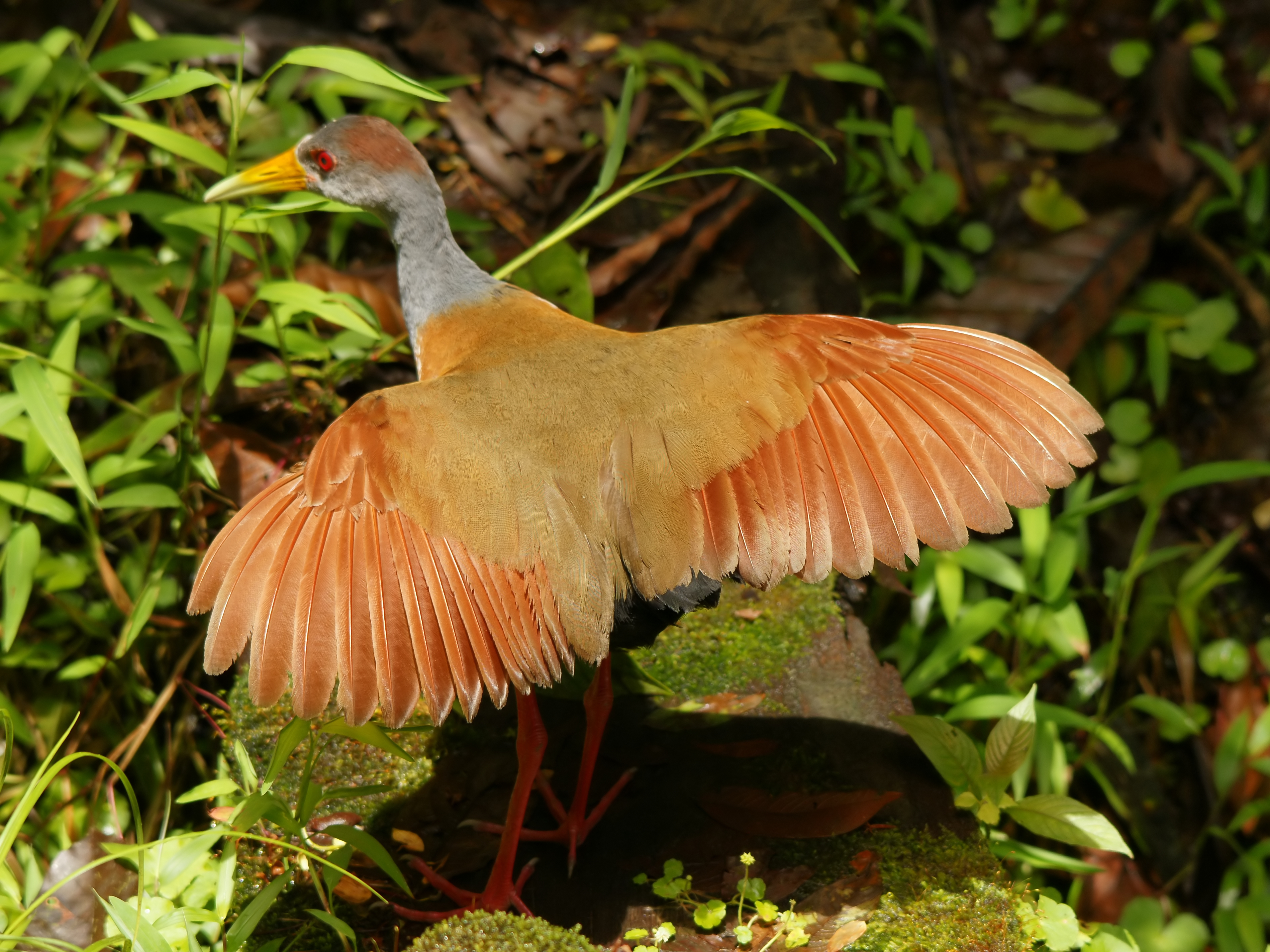 Rufous-naped Wood Rail Aramides albiventris plumbeicollis Zeledon, 1888 at Rara Avis near Las Horquetas, Costa Rica